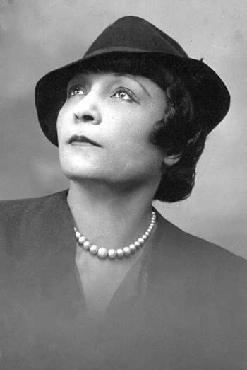 Haitian writer who lived in France from 1914 to 1969, where she married; she was involved in feminist and artistic movements and is renowned for her writing works.